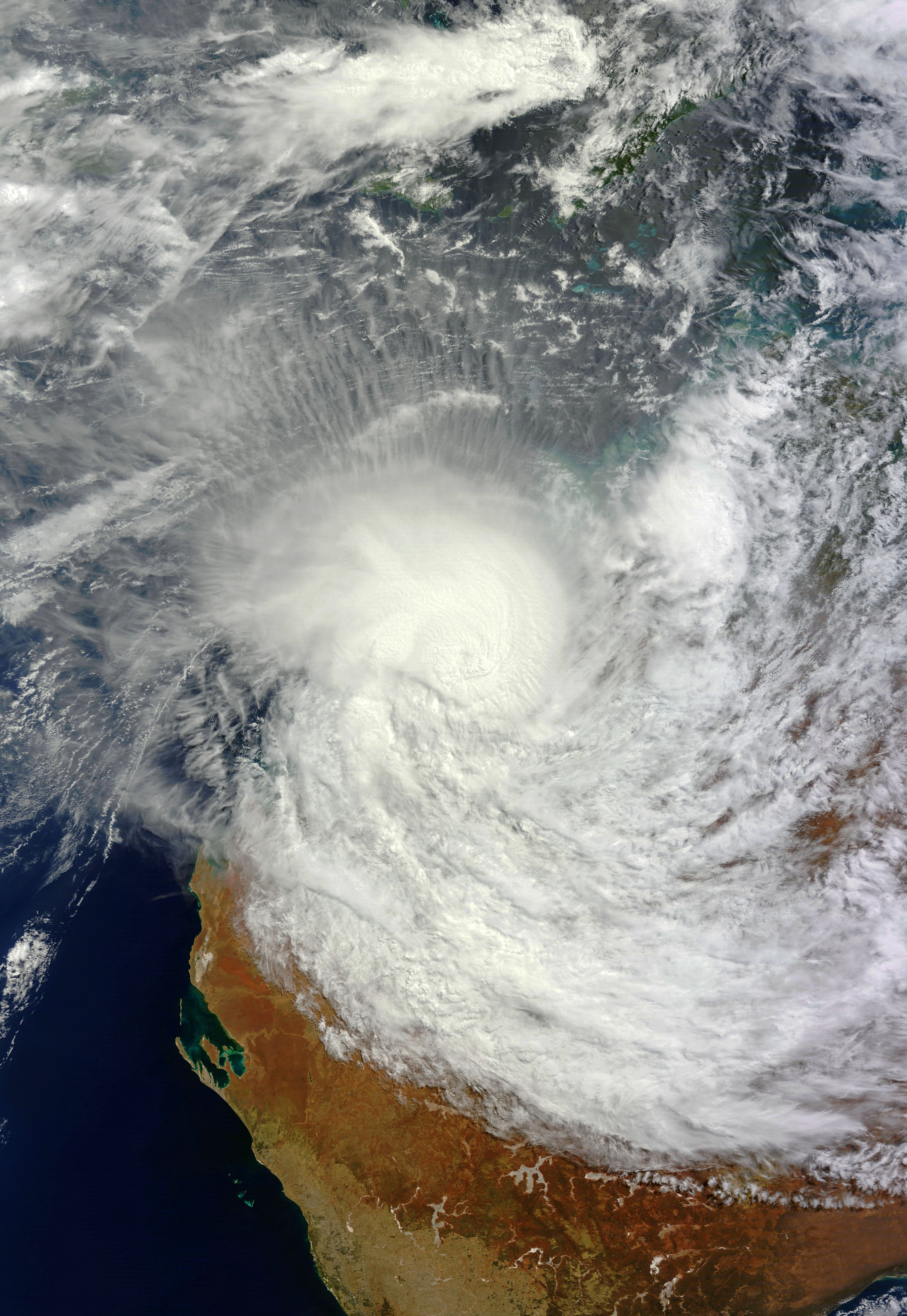 Severe Tropical Cyclone Lua near landfall on March 17, 2012.